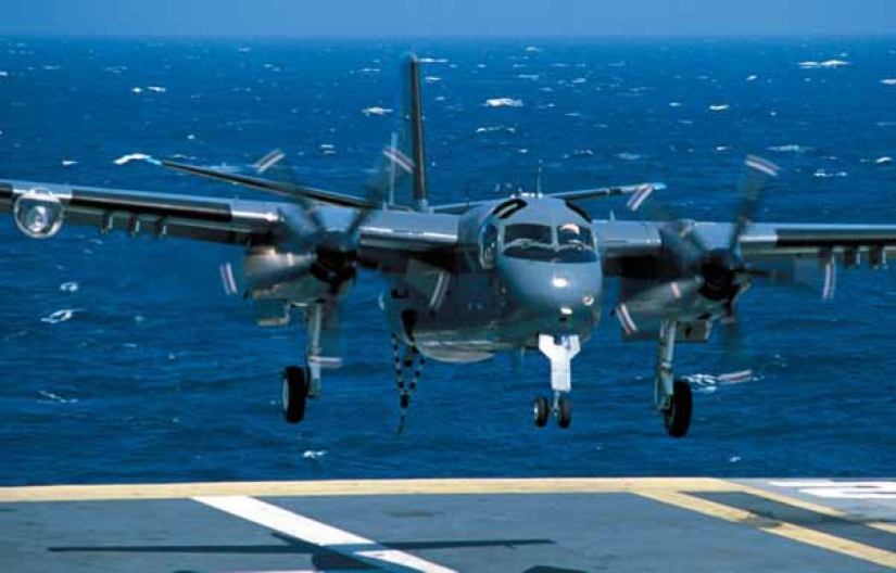 An Argentine Navy Grumman S-2T Tracker landing aboard the Brazilian aircraft carrier Saõ Paulo (A12), in 2003.